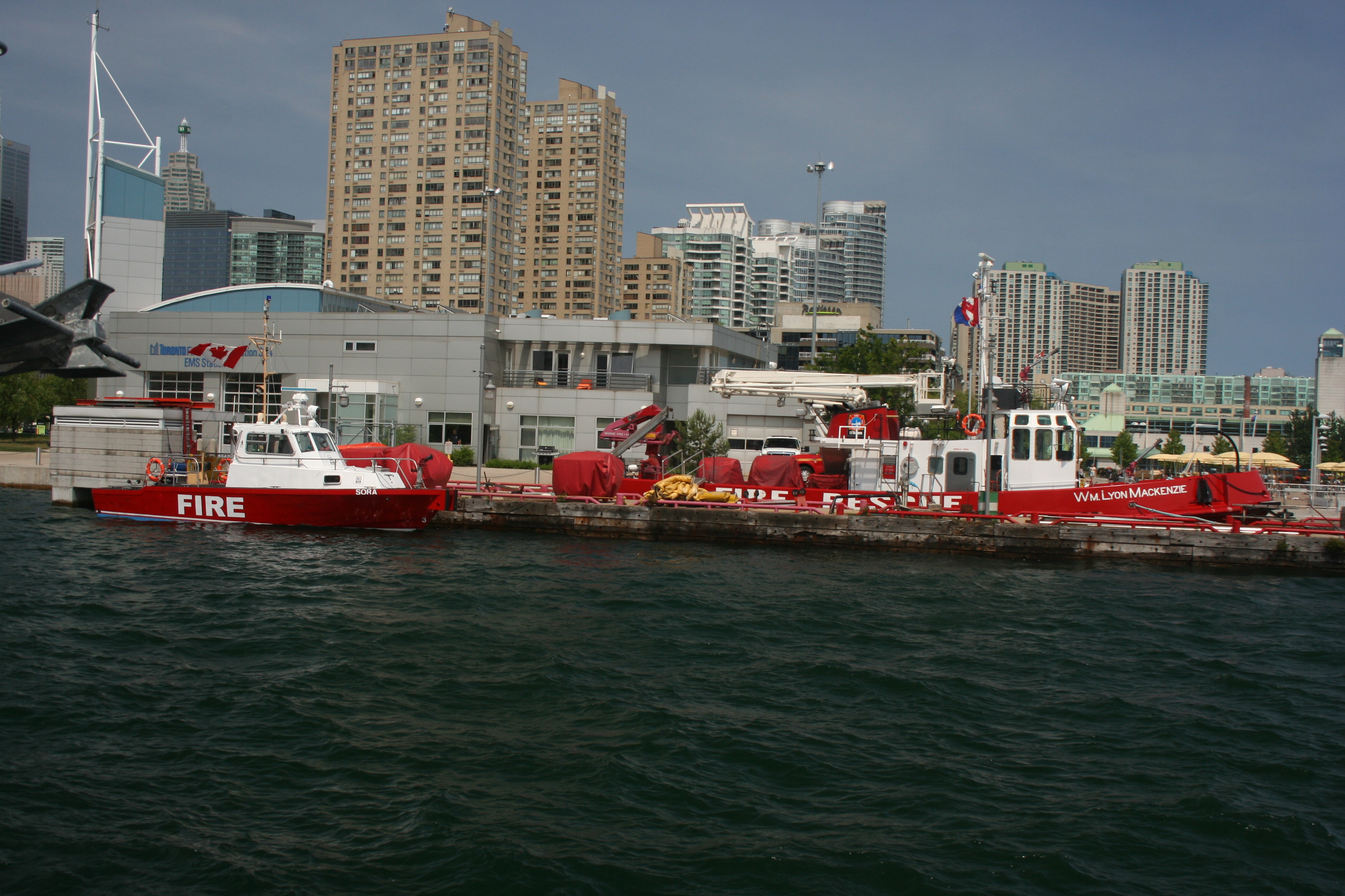 Toronto Fireboats Sora and Wm. Lyon Mackenzie_4765